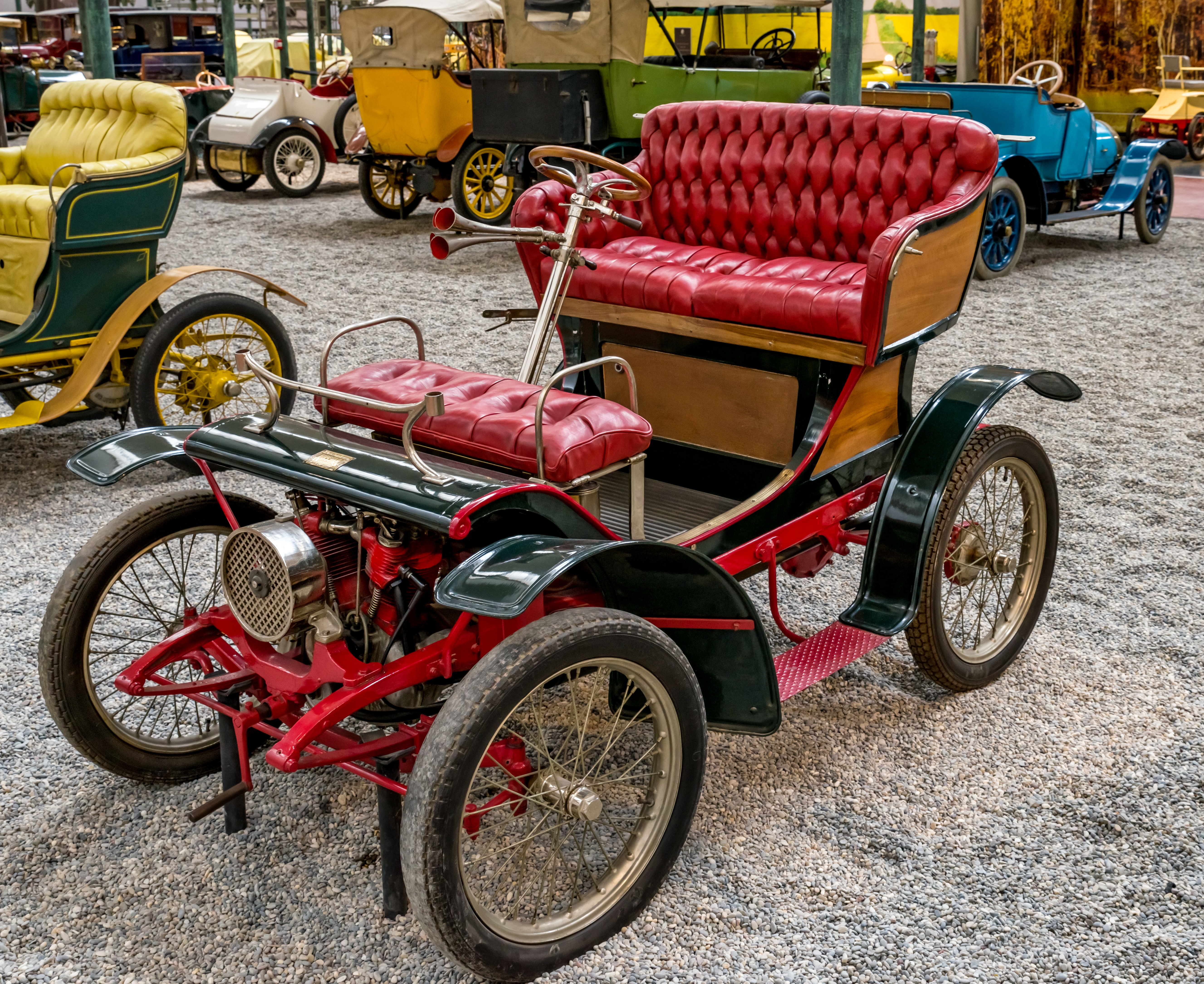 pictures from the Cité de l’Automobile – Musée National – Collection Schlump in Mulhouse, France ptictures from the 10. may 2018